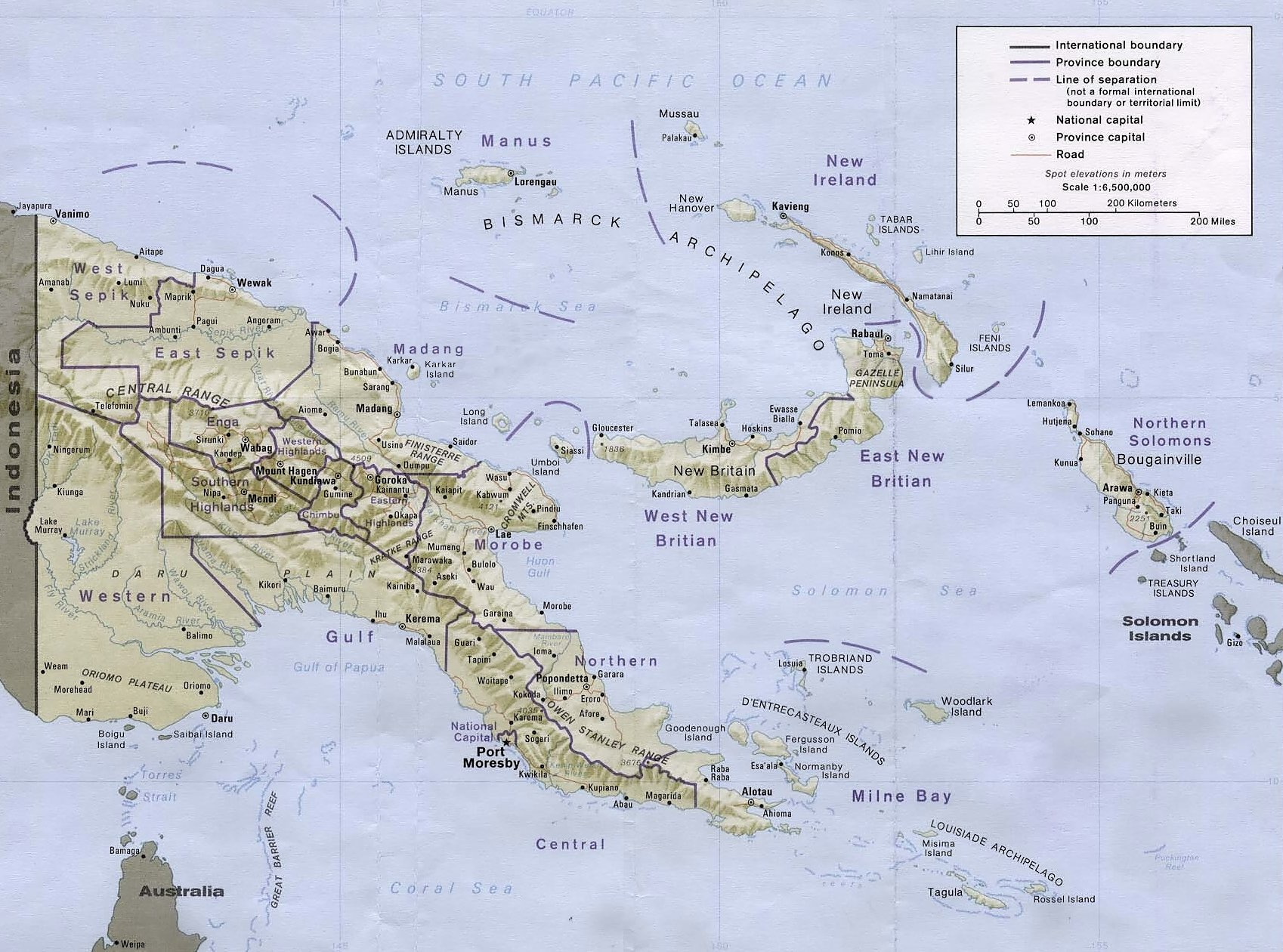 Map of Papua New Guinea. Note that the spellings are erroneous, more than once, in giving "Britian" instead of "Britain".